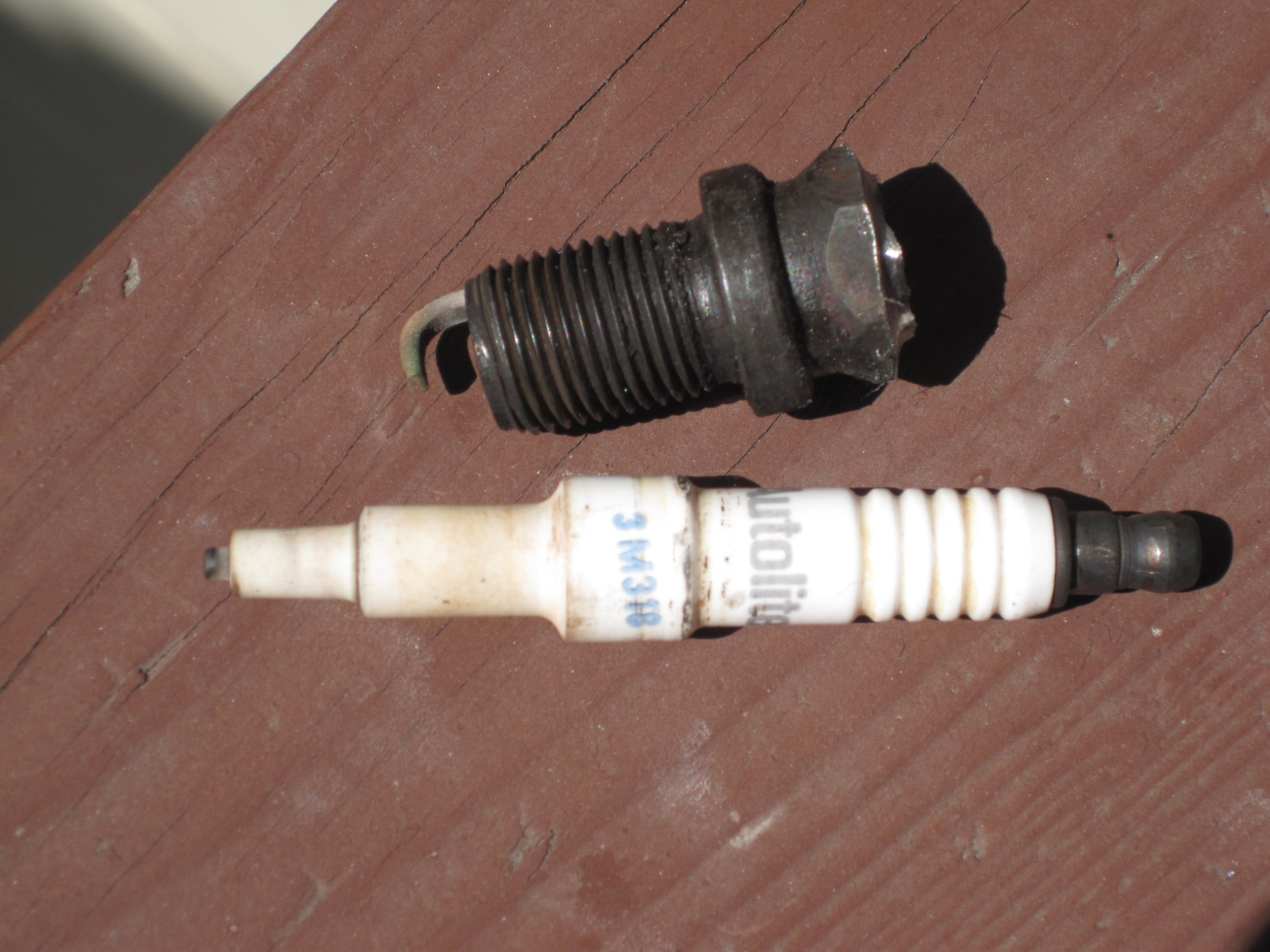 Dissected spark plug showing one-piece alumina insulator and core removed from metal holder. The glaze line can be seen, along with the sealing surfaces.